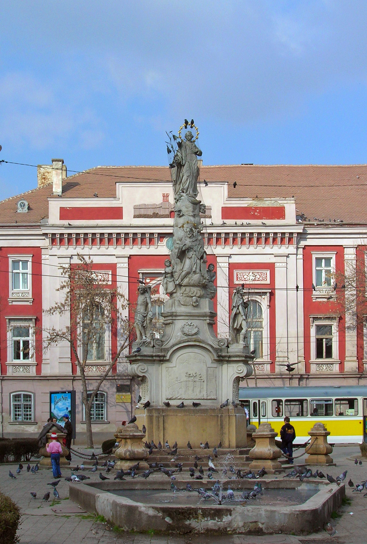 Votive figure on Piaţa Libertâţi (Freedom Square). Timişoara (Romania).